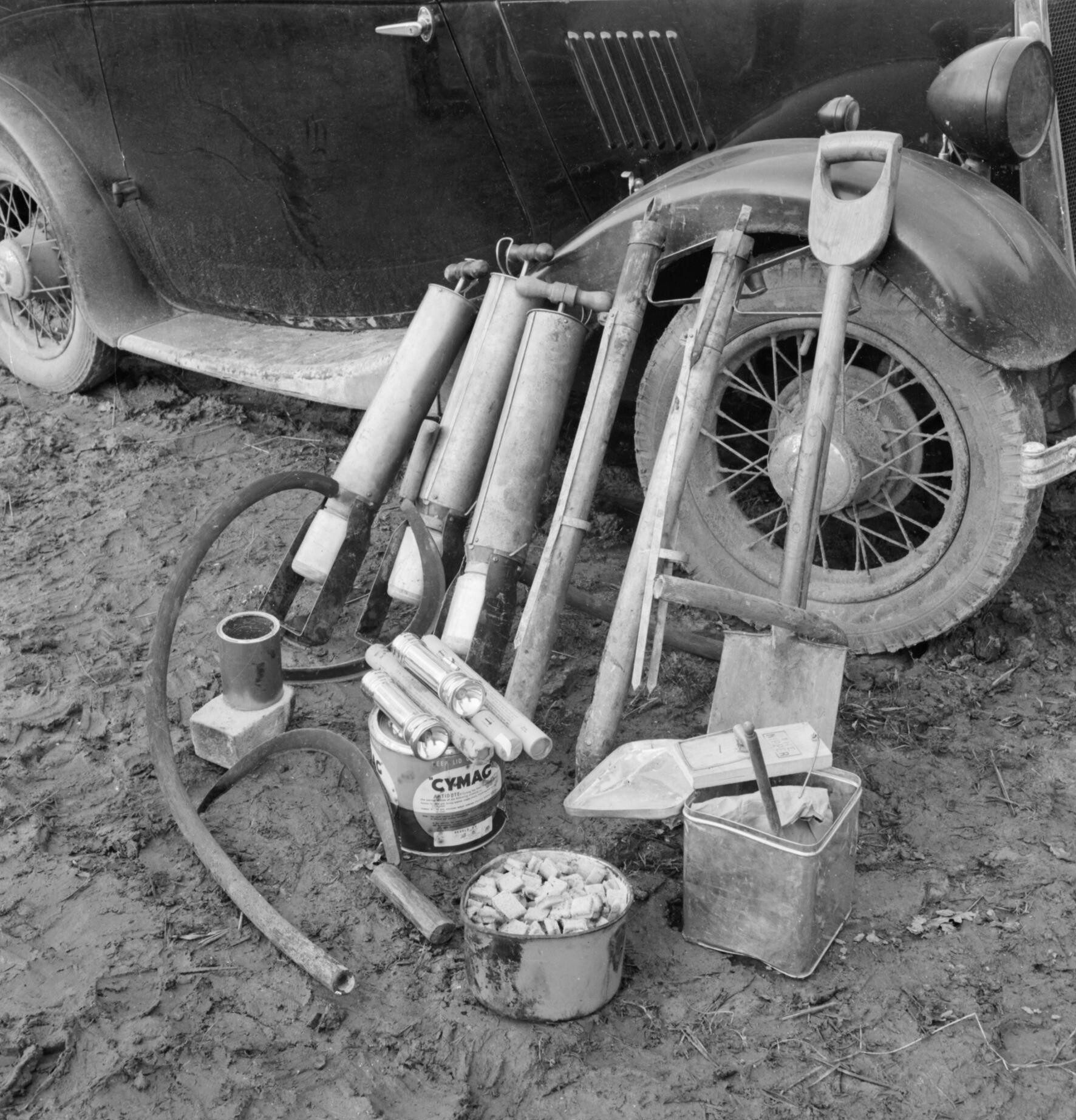 Equipment used by members of the Women's Land Army to deal with rats, including poisons, pumps used to dispense this poison, a shovel and bait, 1942. A display of the equipment used by members of the Women's Land Army brigade of rat catchers, including various types of poison and the pumps used to dispense this poison, a shovel and bait. The items are propped up against a car.